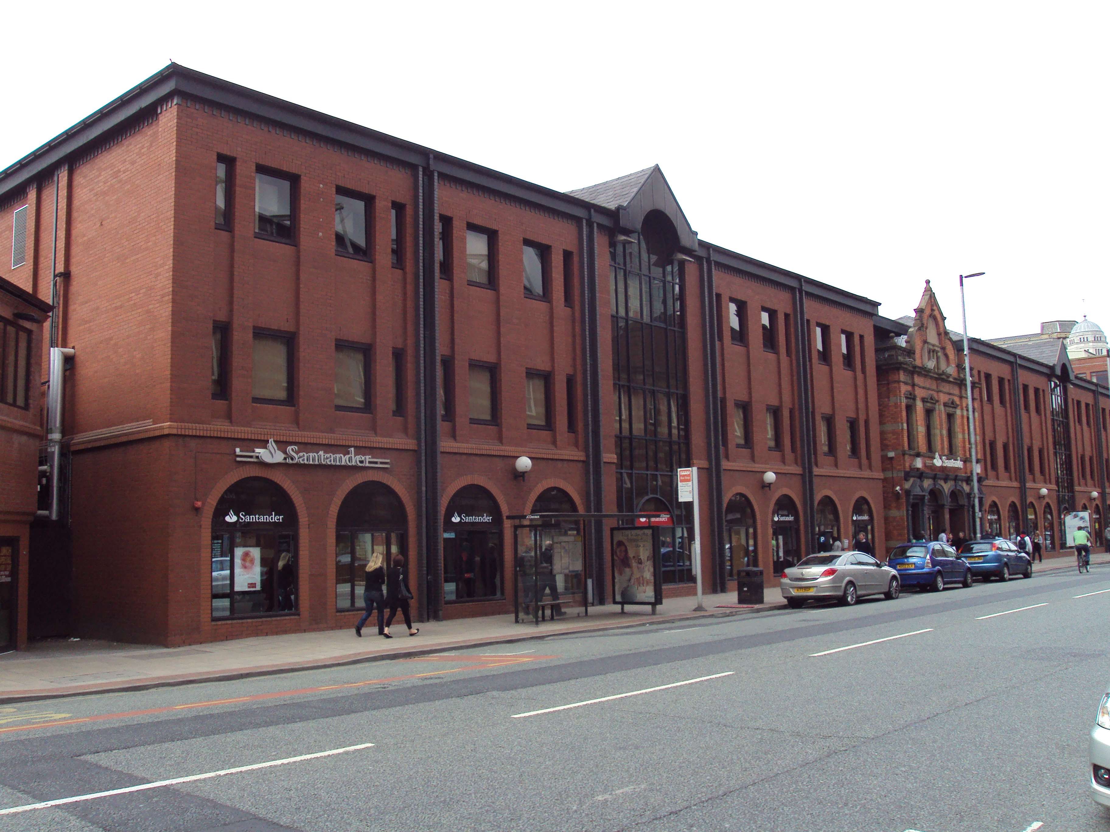 Santander offices, A56 Deansgate, Manchester, England.